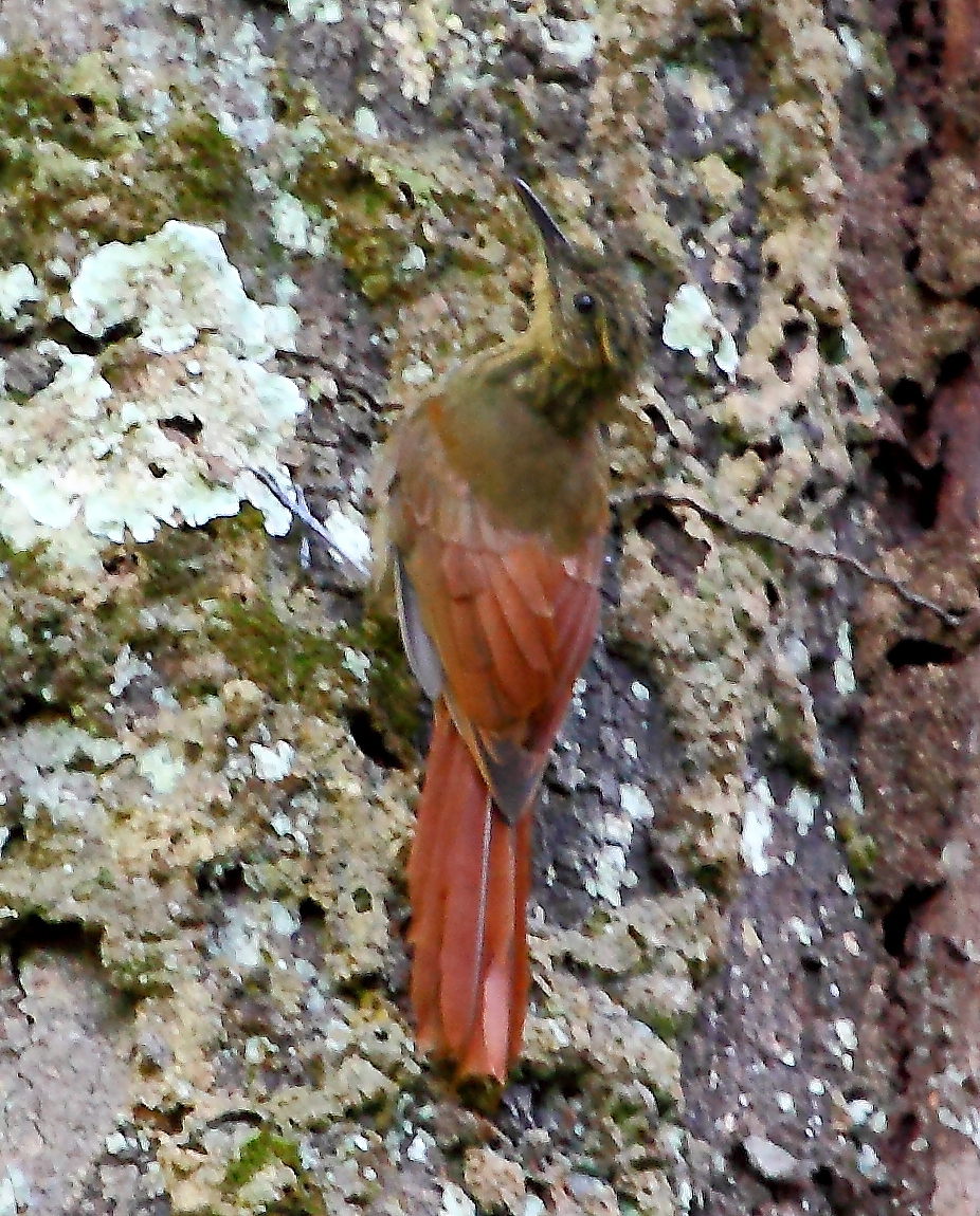 Long-tailed Woodcreeper at Presidente Figuiredo - AM Brazil